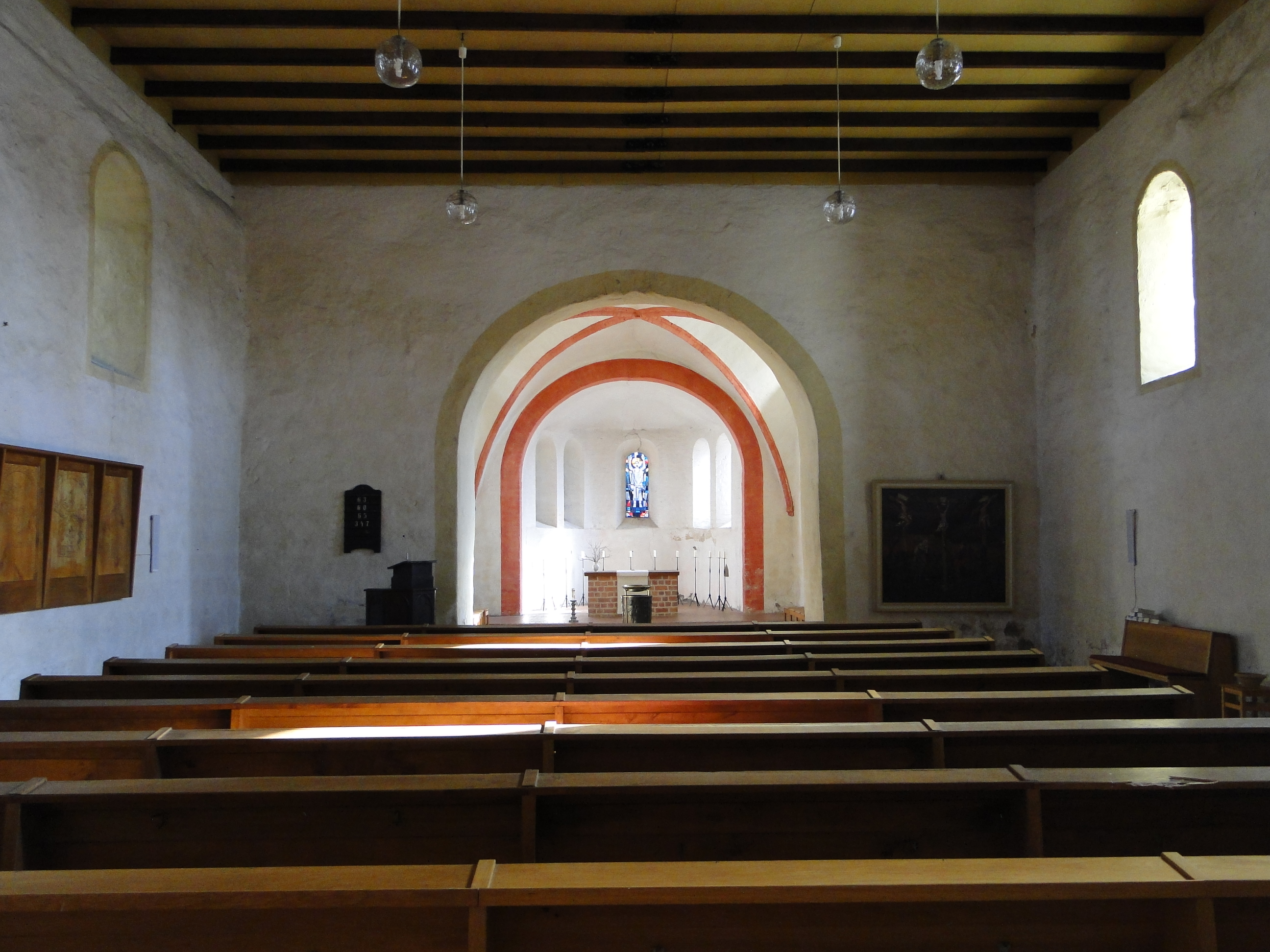 Church in Benthen, district Ludwigslust-Parchim, Mecklenburg-Vorpommern, Germany